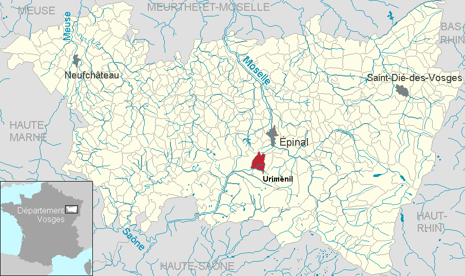 Uriménil in the department of Vosges, Lorraine, France